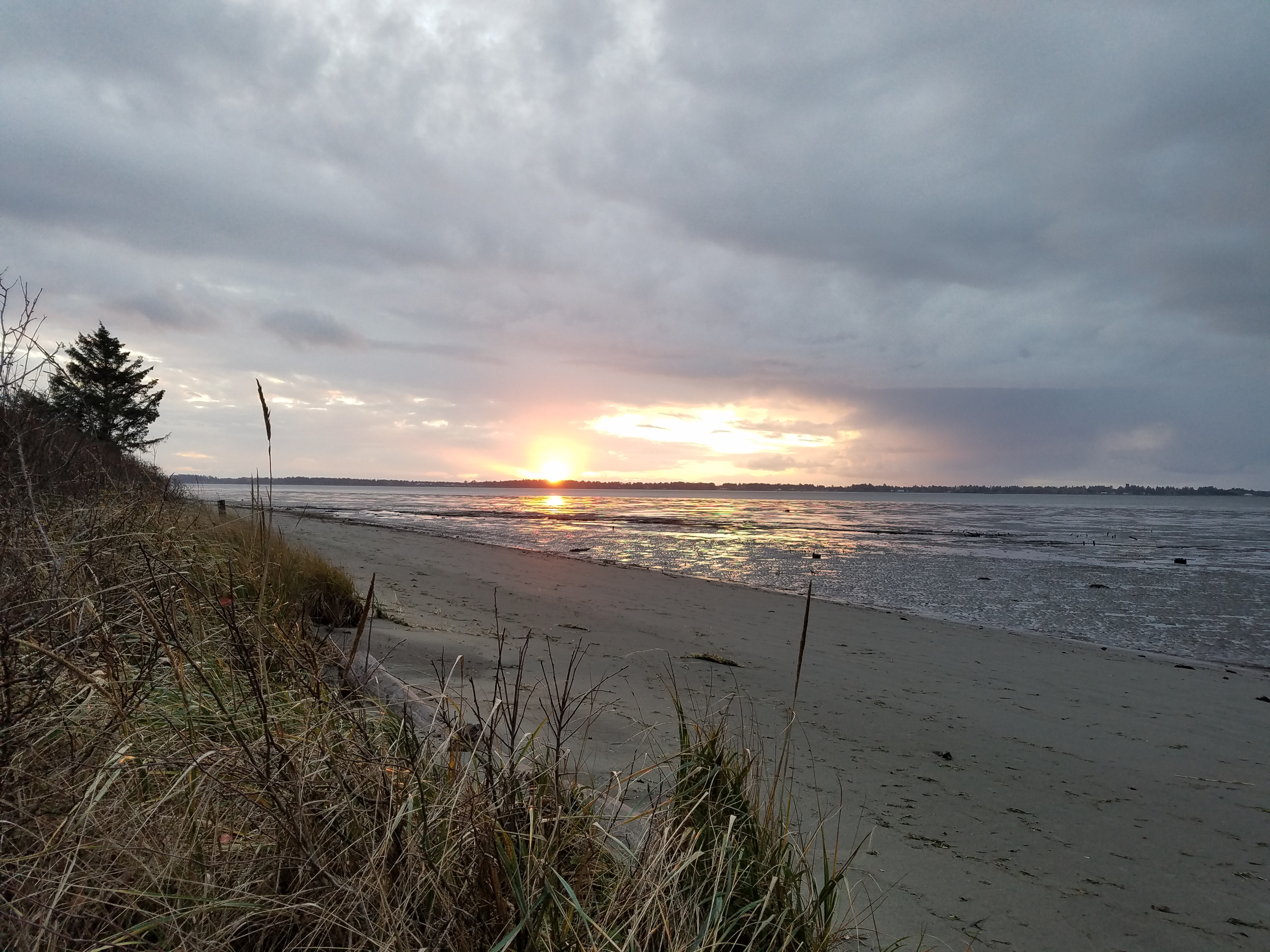 View of Bottle Beach at sunset with tide flats in the background, Bottle Beach State Park, Washington, USA.